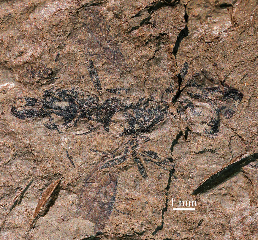 Odontomachus paleomyagra" holotype queen. Specimen ZD0136; Z. Dvorak Private collection, B lina Mine Enterprises; Teplice, Czech Republic. Most Formation, Burdigalian; Blina Mine, Teplice, Czech Republic.